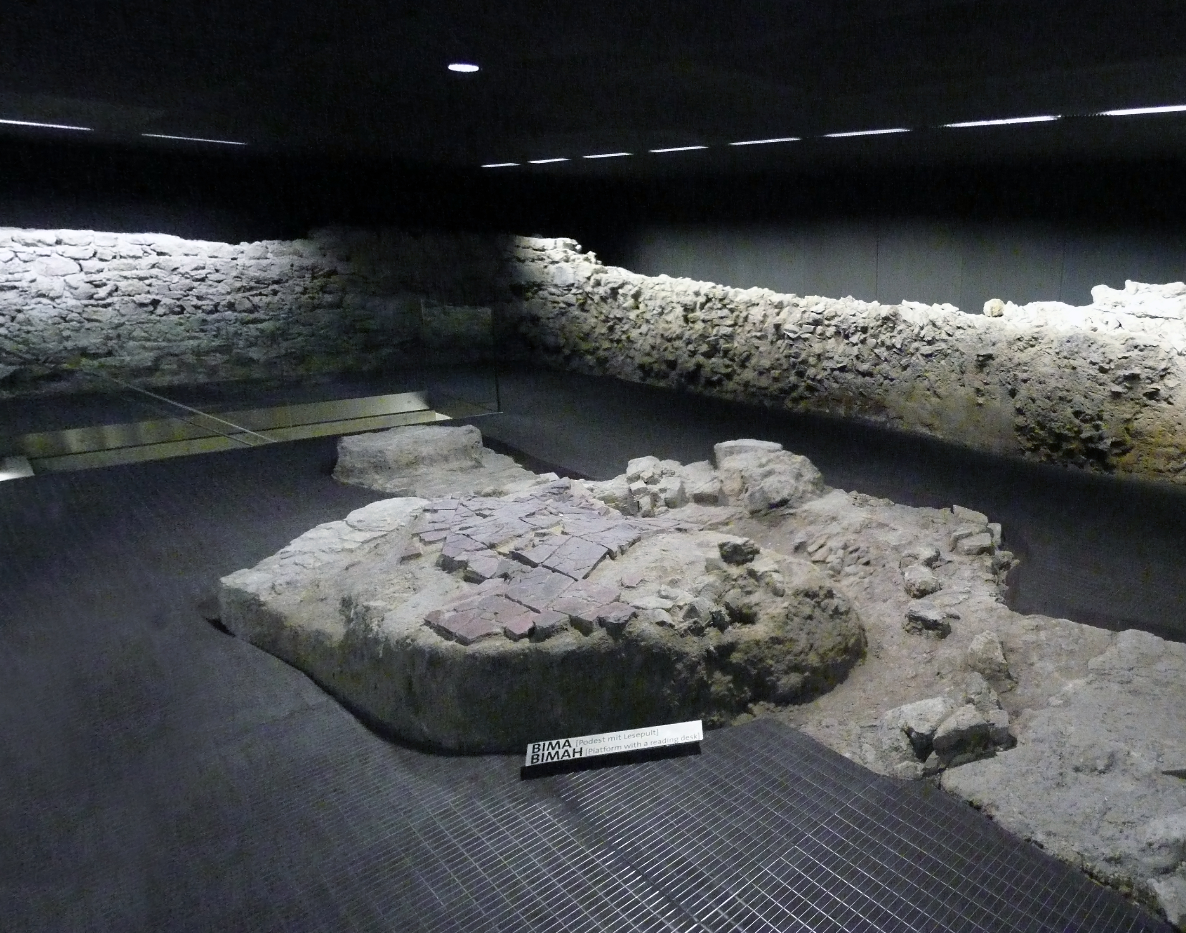 Bimah. Remains of Vienna's oldest synagogue. The synagogue was the spritiual centre of Jewish scholarship which extended over the continent of Europea and enjoyed one of its heydays here in Vienna. The destruction of the synagogue in 1421, motivated by hatred and misconceptions, marked the end of Vienna's first Jewish community. This site now serves as a memorial to the victims of the Vienna Gesera.